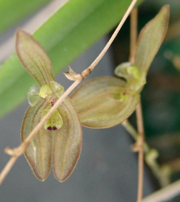 Pleurothallis octophrys